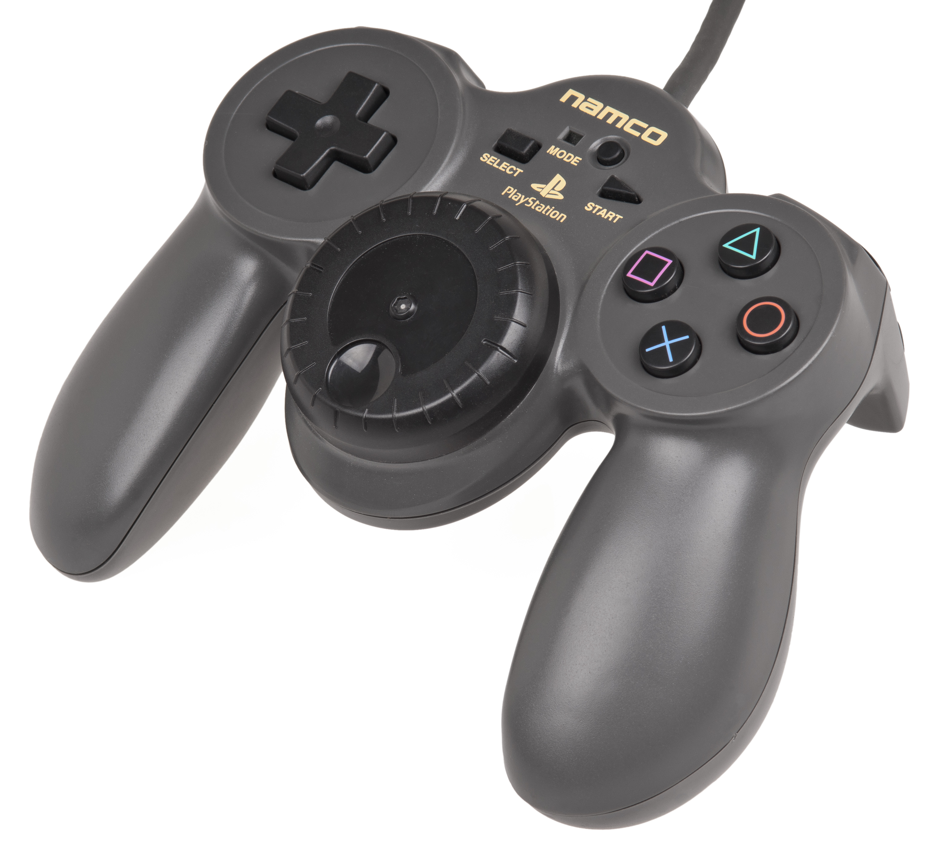 A Namco Jogcon controller for the Sony PlayStation.